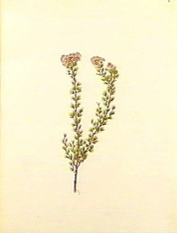 This is a digital image of a watercolour (39.5 x 28.5 cm.) by Adam Forster, 1850-1928. It depicts the species Verticordia brownii and the image has been cropped to remove the backing board (and the license)